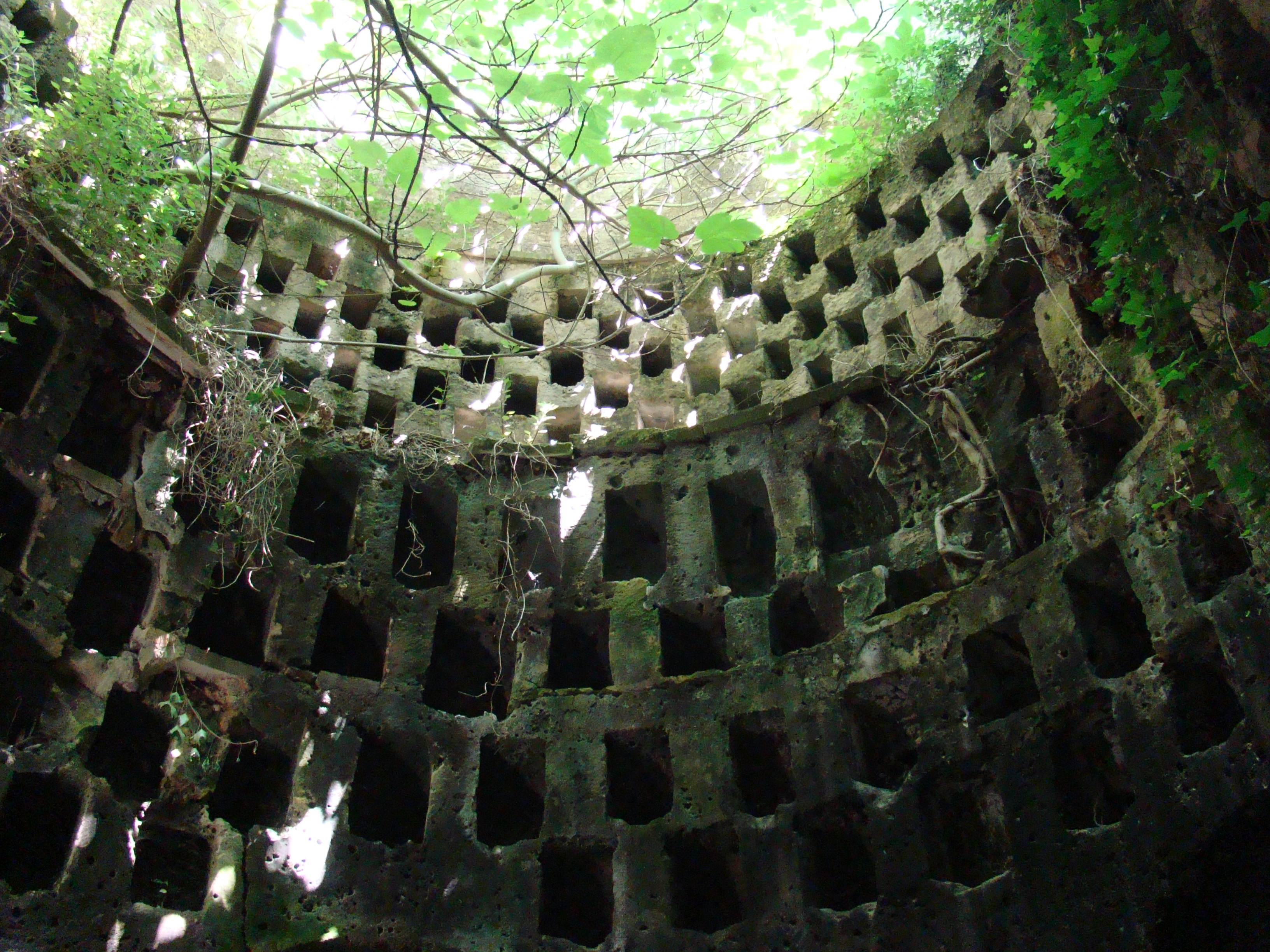 Hypogaeum Torre Pinta/Otranto